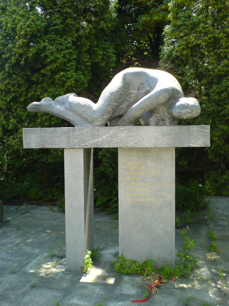 Miloš Sýkora Monument, Ostrava.